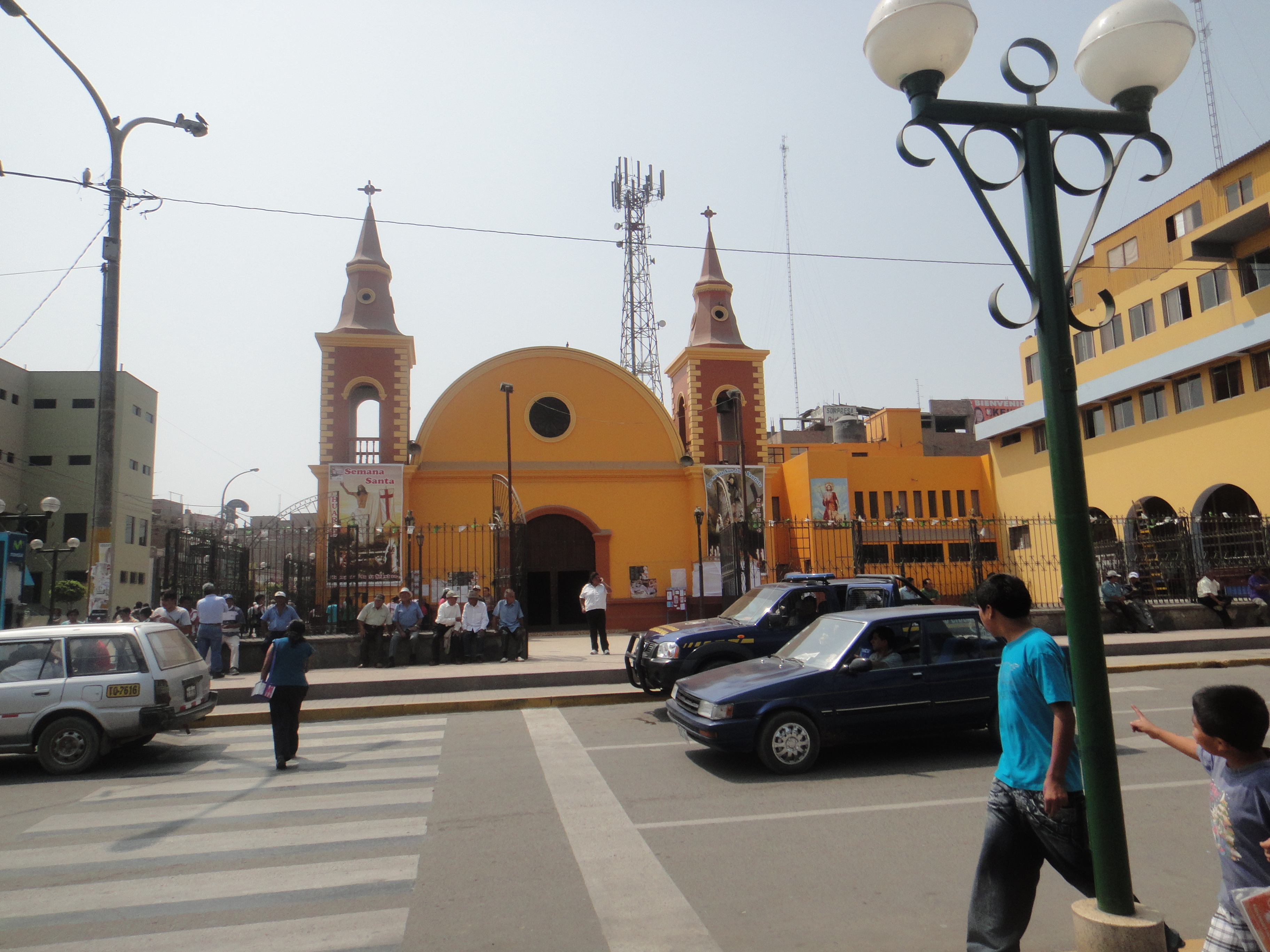 Church of Saint John the Baptist, Huaral, Lima-Peru